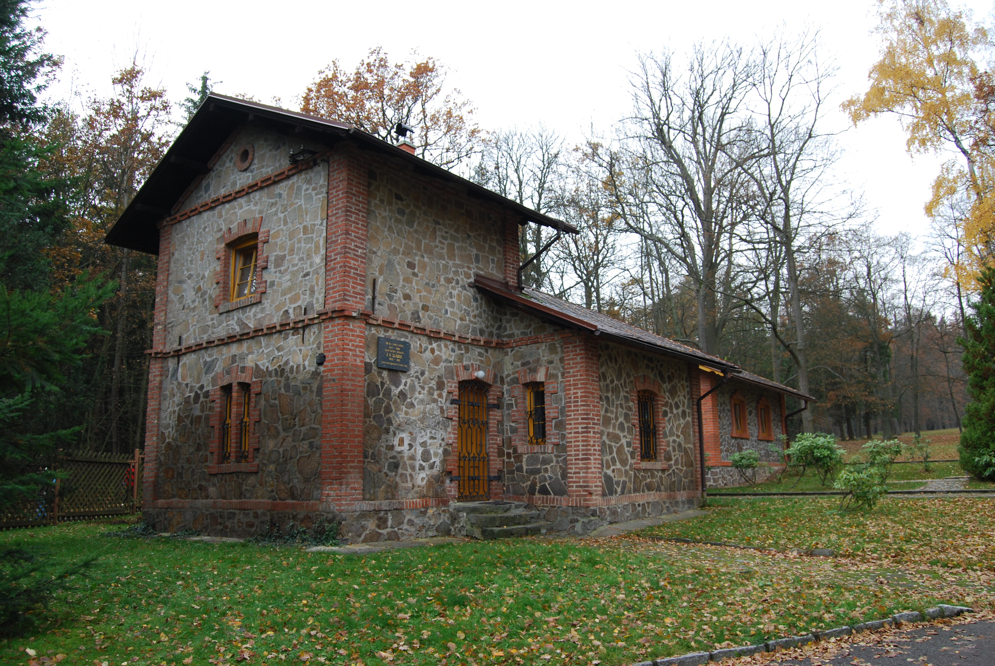 Monument of Antonín Dvořák in Vysoká u Příbrami in Příbram District, Czech Republic. House where Josef Václav Sládek lived